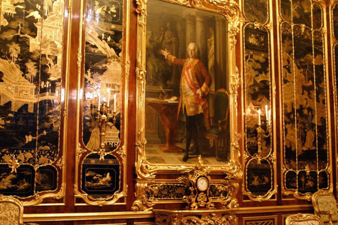 Vieux-Laque-Zimmer im Schloss Schönbrunn